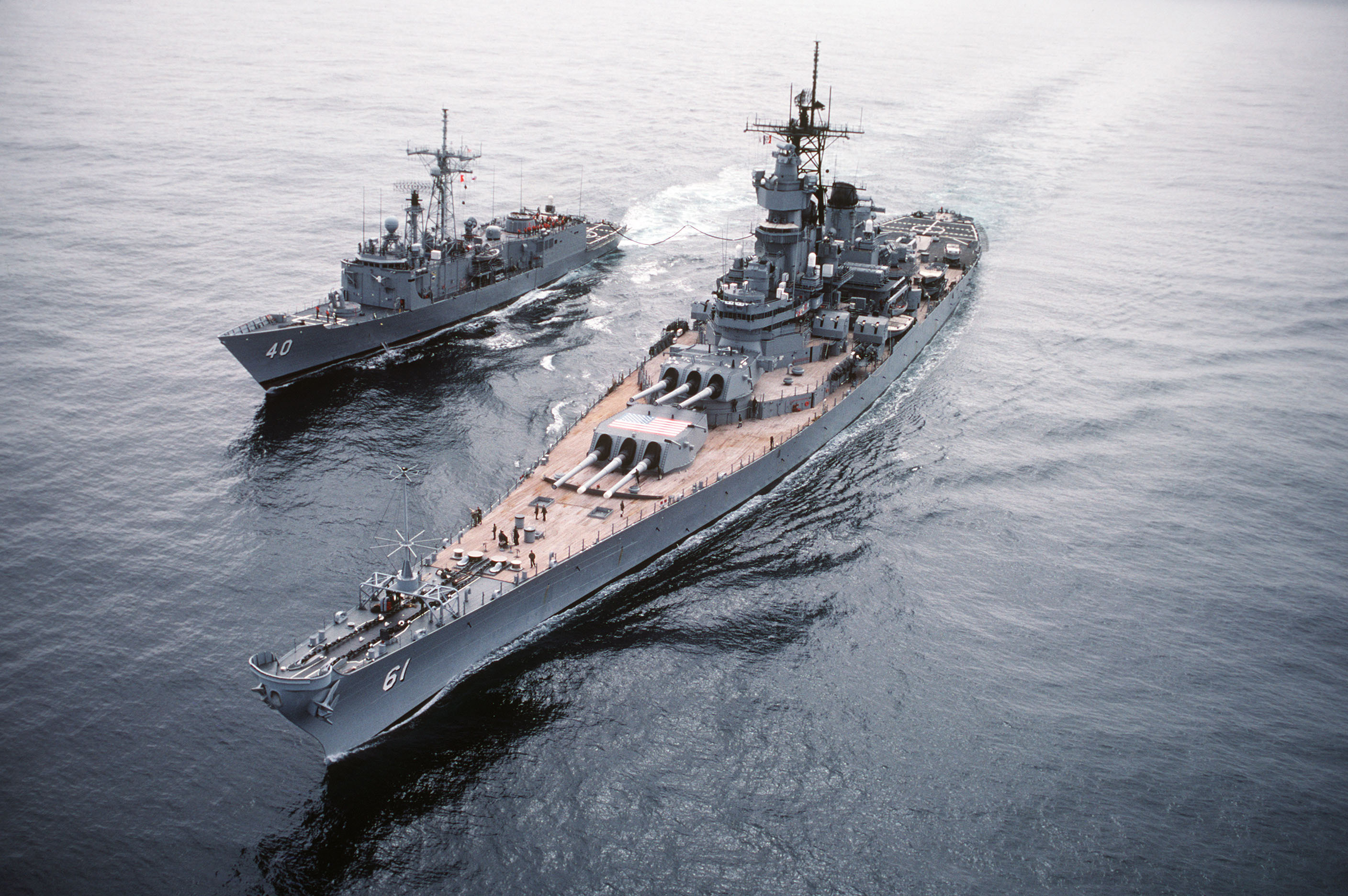 An elevated port bow view of the battleship USS Iowa (BB-61) as it refuels the guided missile frigate USS Halyburton (FFG-40) during an underway replenishment. The ships are participating in NATO Exercise Ocean Safari '85.